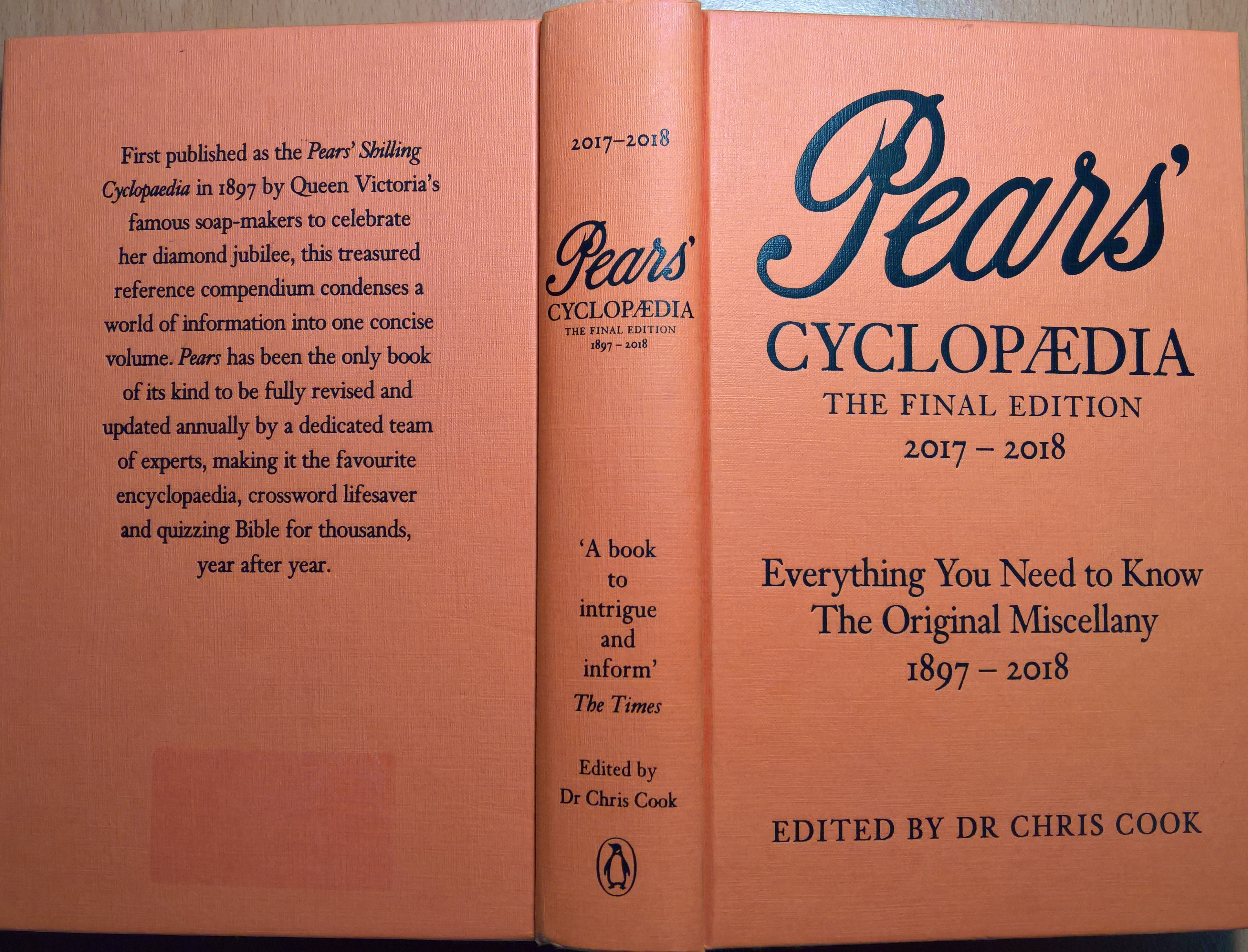 Front cover, spine and back cover of the Pears' Cyclopaedia Final Edition 2017-2018